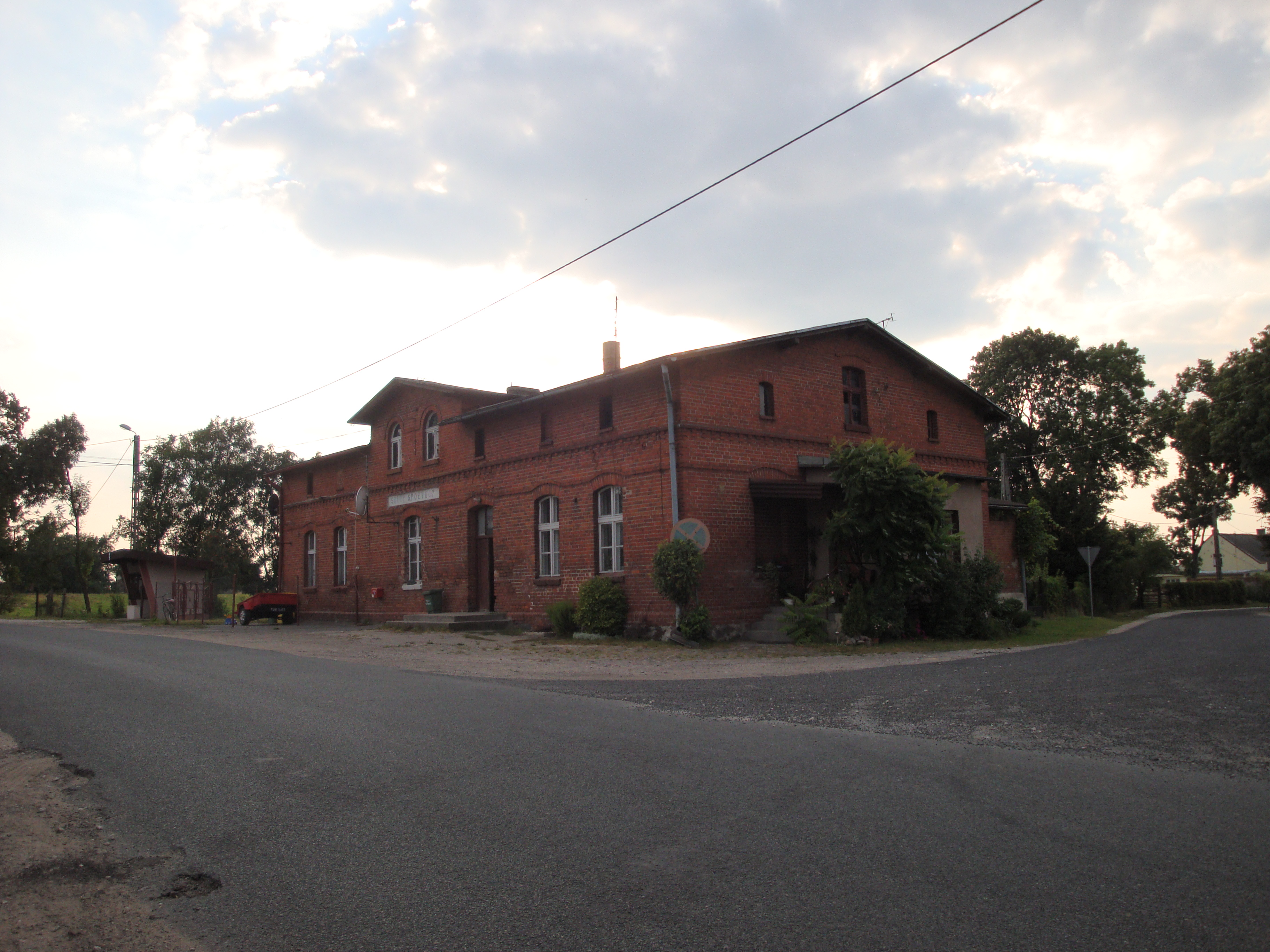 Village Wiewiórki, Poland. General shop, previously inn